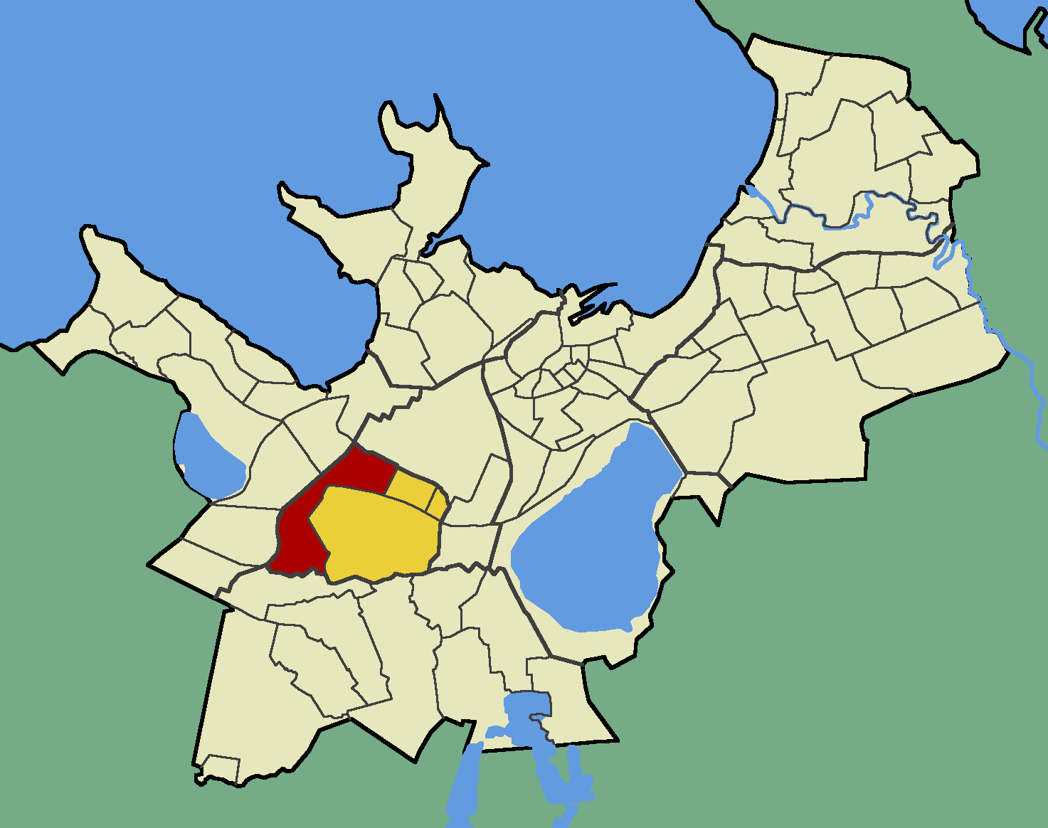 Map of Tallinn (Estonia) with borders of the quarters, Mustamäe district and Kadaka quarter emphasised